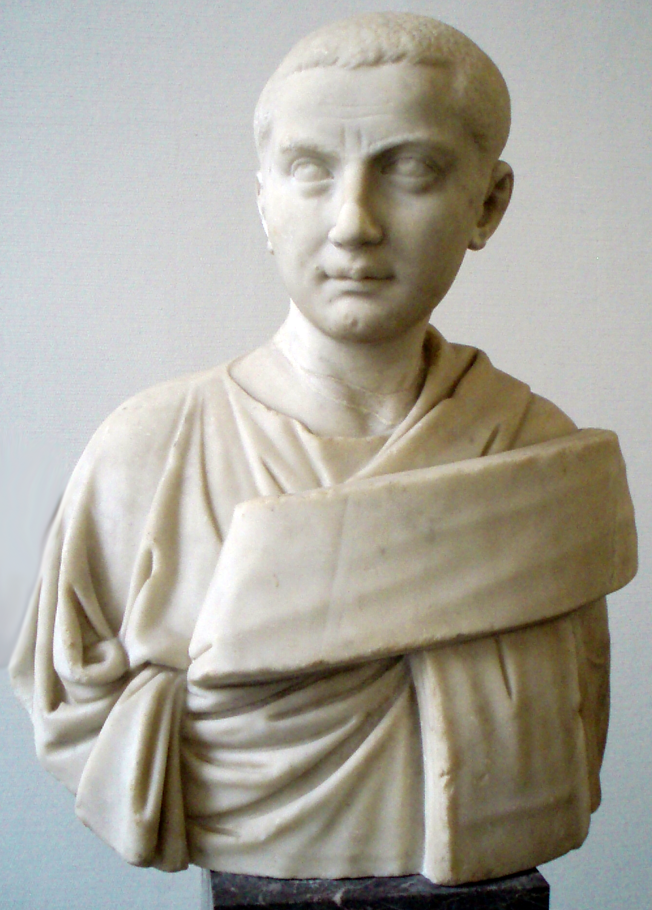 Bust of the young Roman Emperor Gordian III, now residing in the Pergamon Museum, Berlin. Image lightly retouched in PhotoShop on one side to remove distracting label.